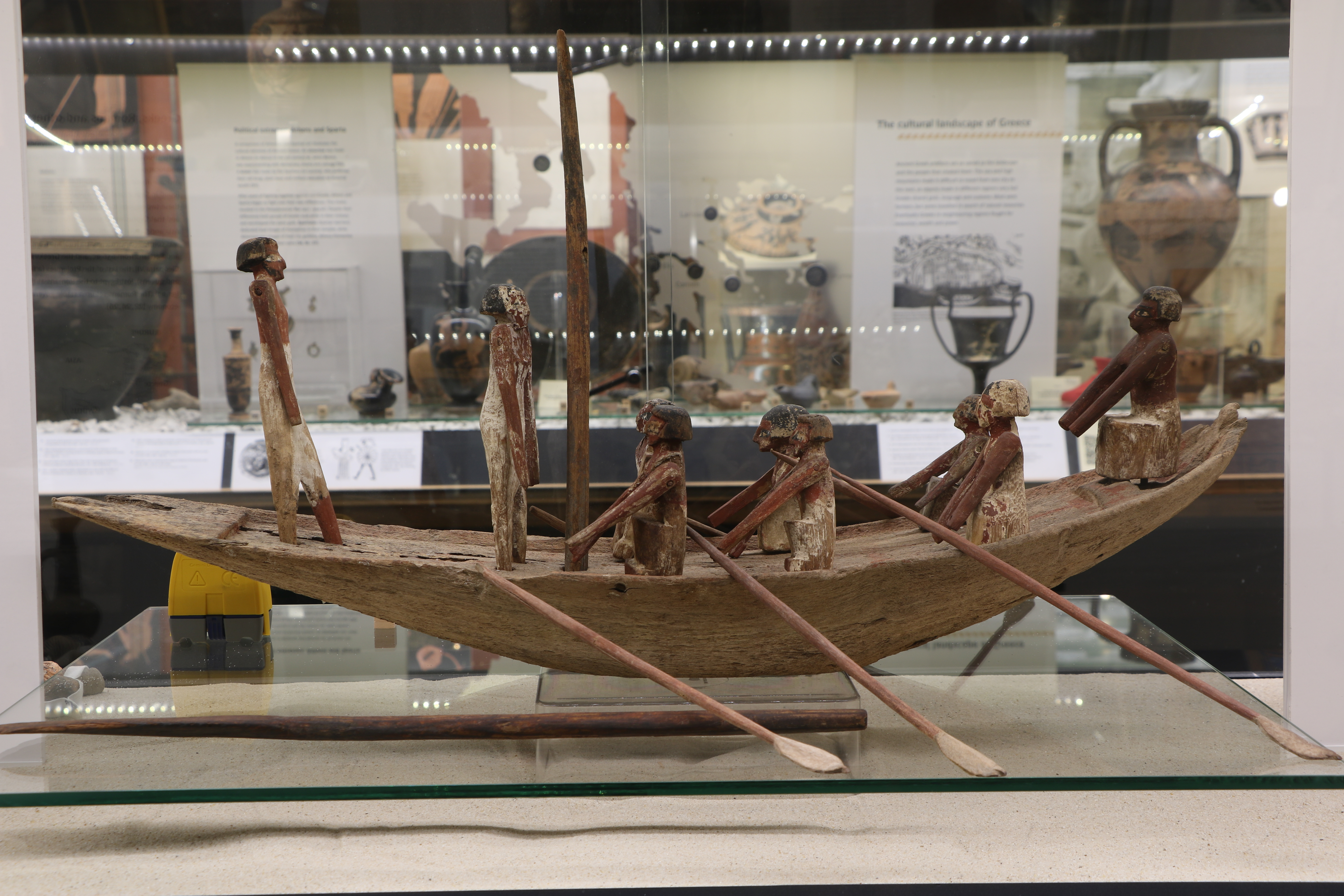 Profile (in case) of the Ure Museum's ancient Egyptian funerary boat from Beni Hasan, Egypt